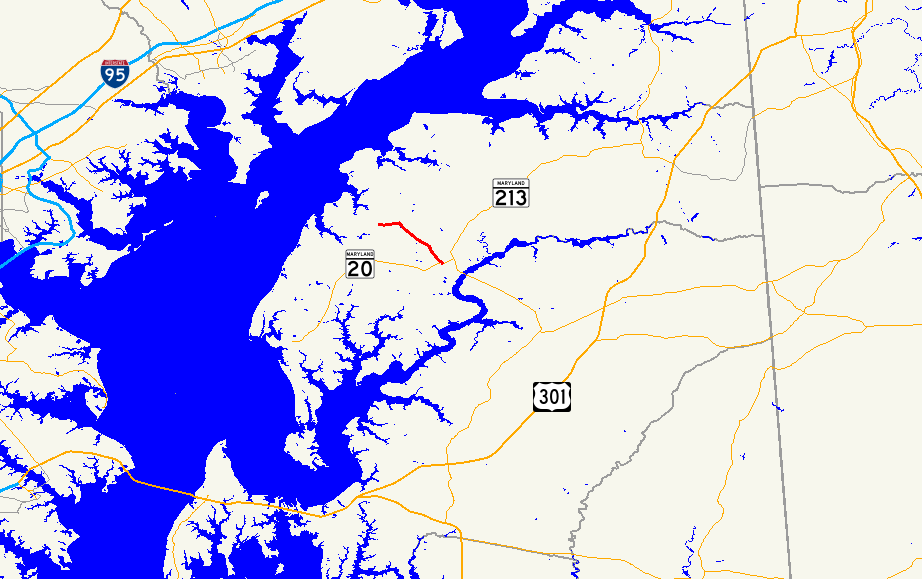 Map of Maryland Route 514